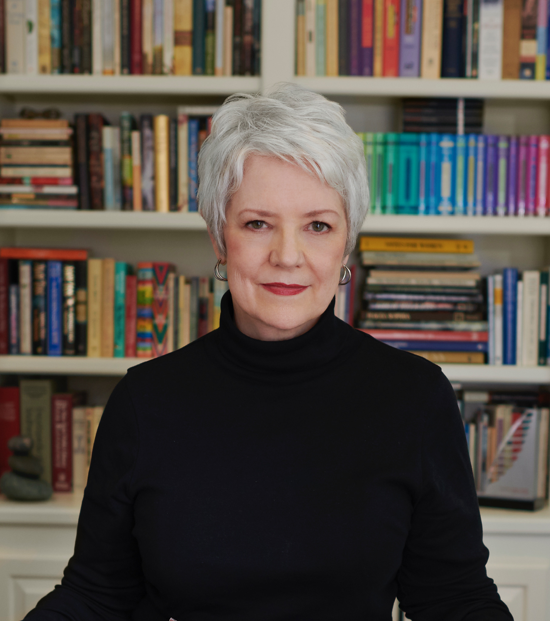 Sue Monk Kidd